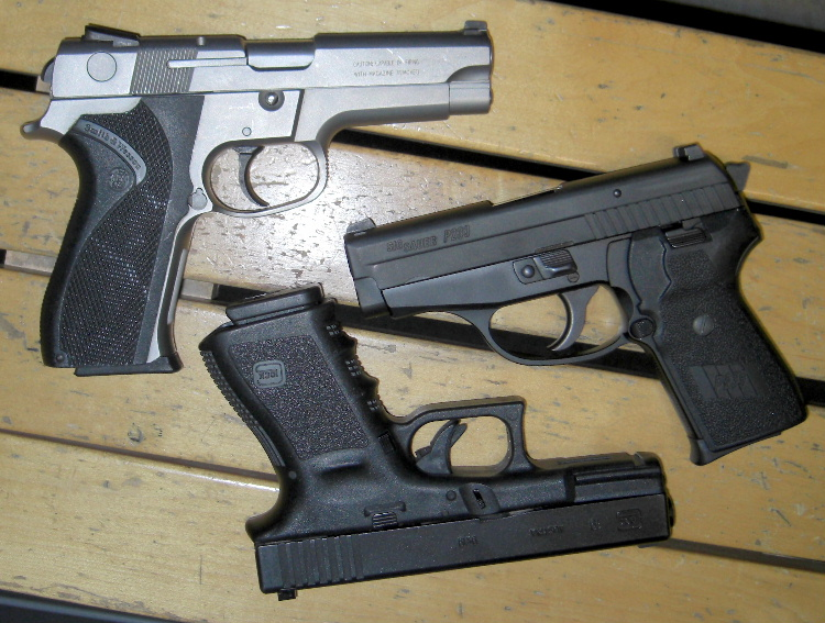 S&W Model 5946 glock-19 sig p-239